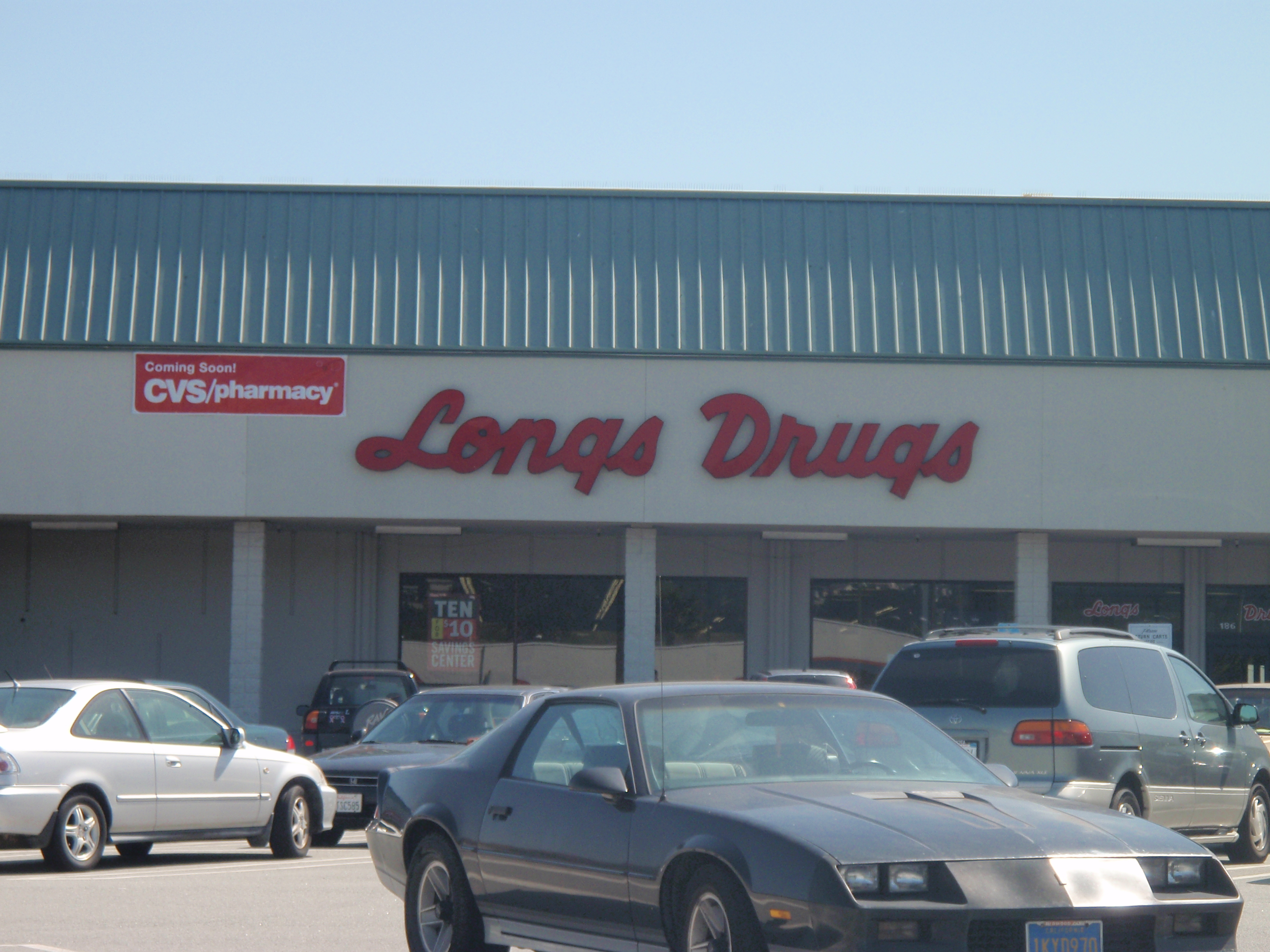 Outside of Longs Drugs store at 186 El Camino Real in South San Francisco, California, USA.